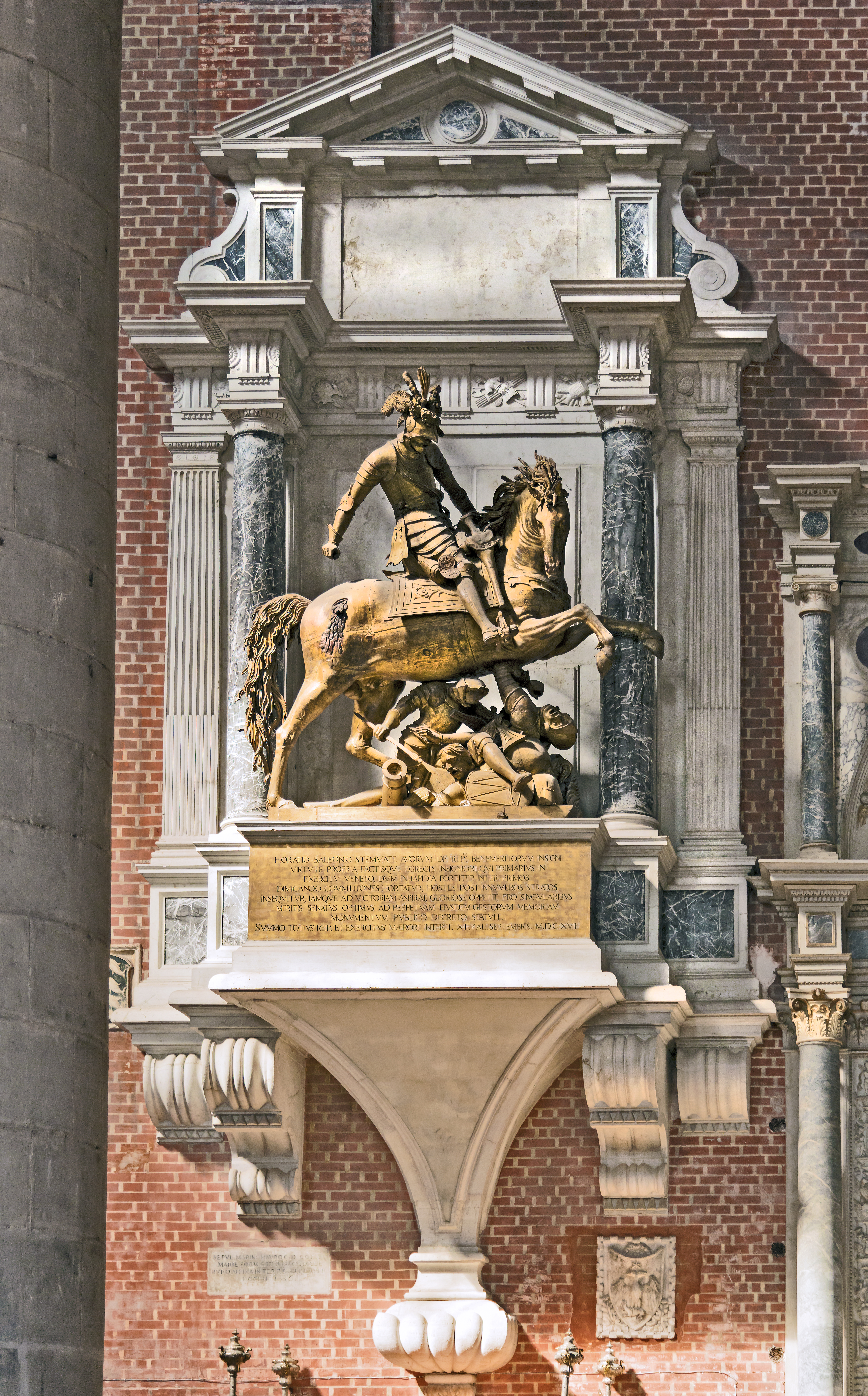 Santi Giovanni e Paolo in Venice - Baroque equestrian monument to Perugian general Orazio Baglioni († 1617).